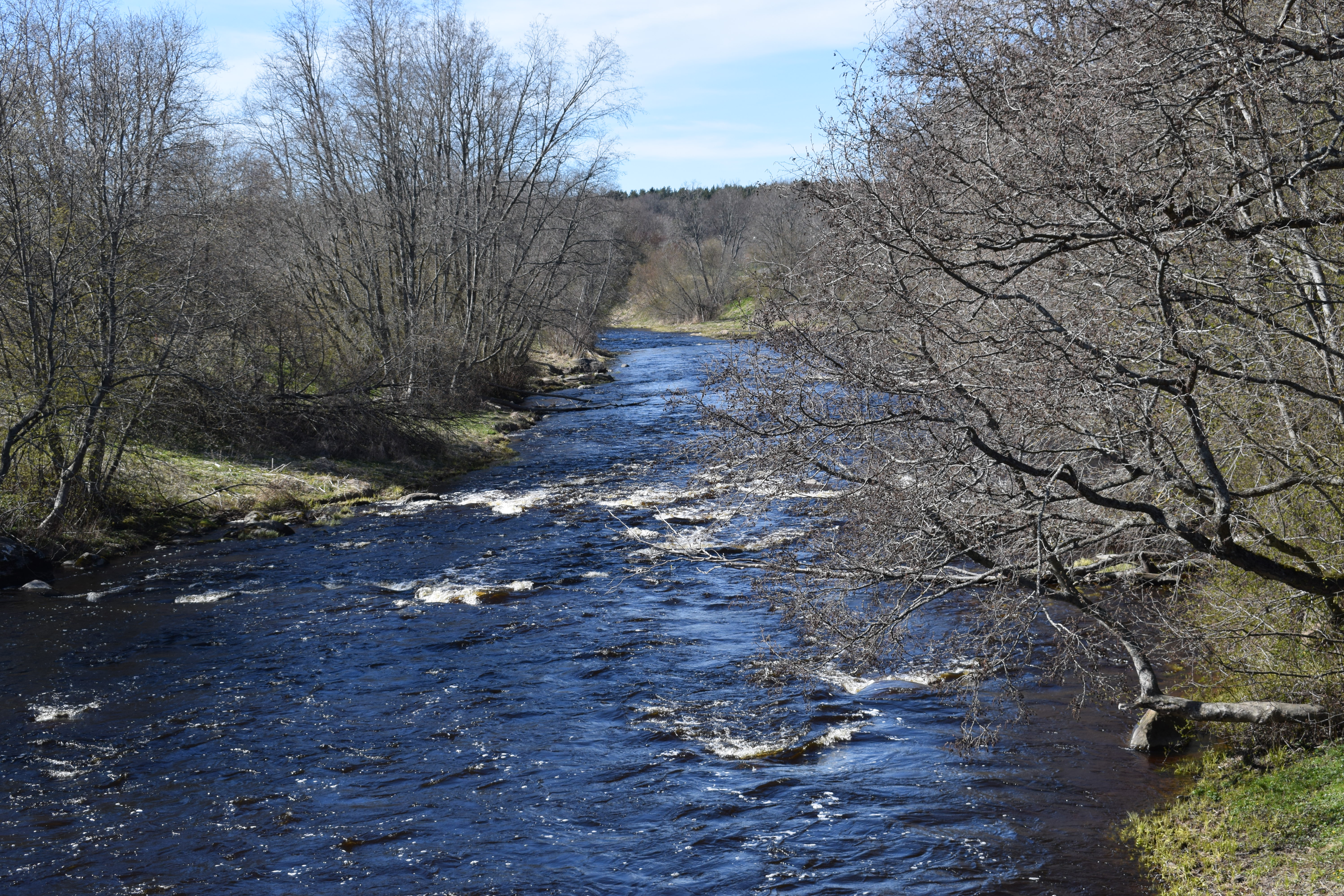 Pirita River